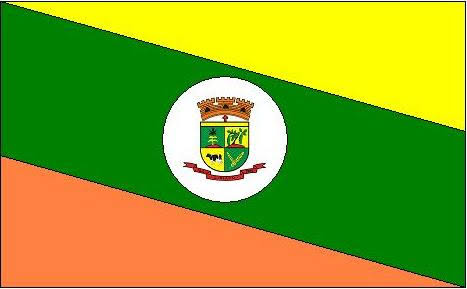 Flags of the city of Ciríaco, Rio Grande do Sul, Brazil.